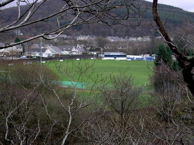 Bethesda football field A view of Bethesda football field from Parc Meurig.